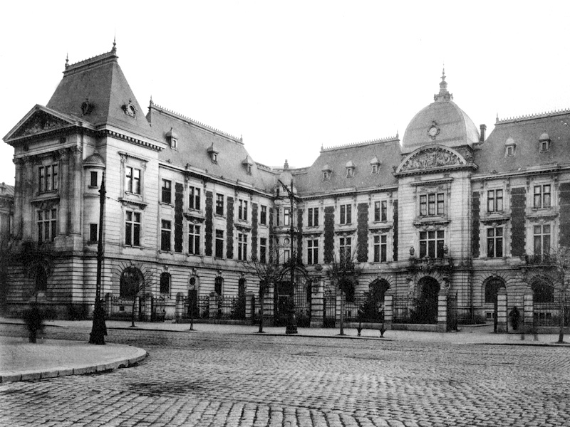 photograph of Bucharest Domains Ministry